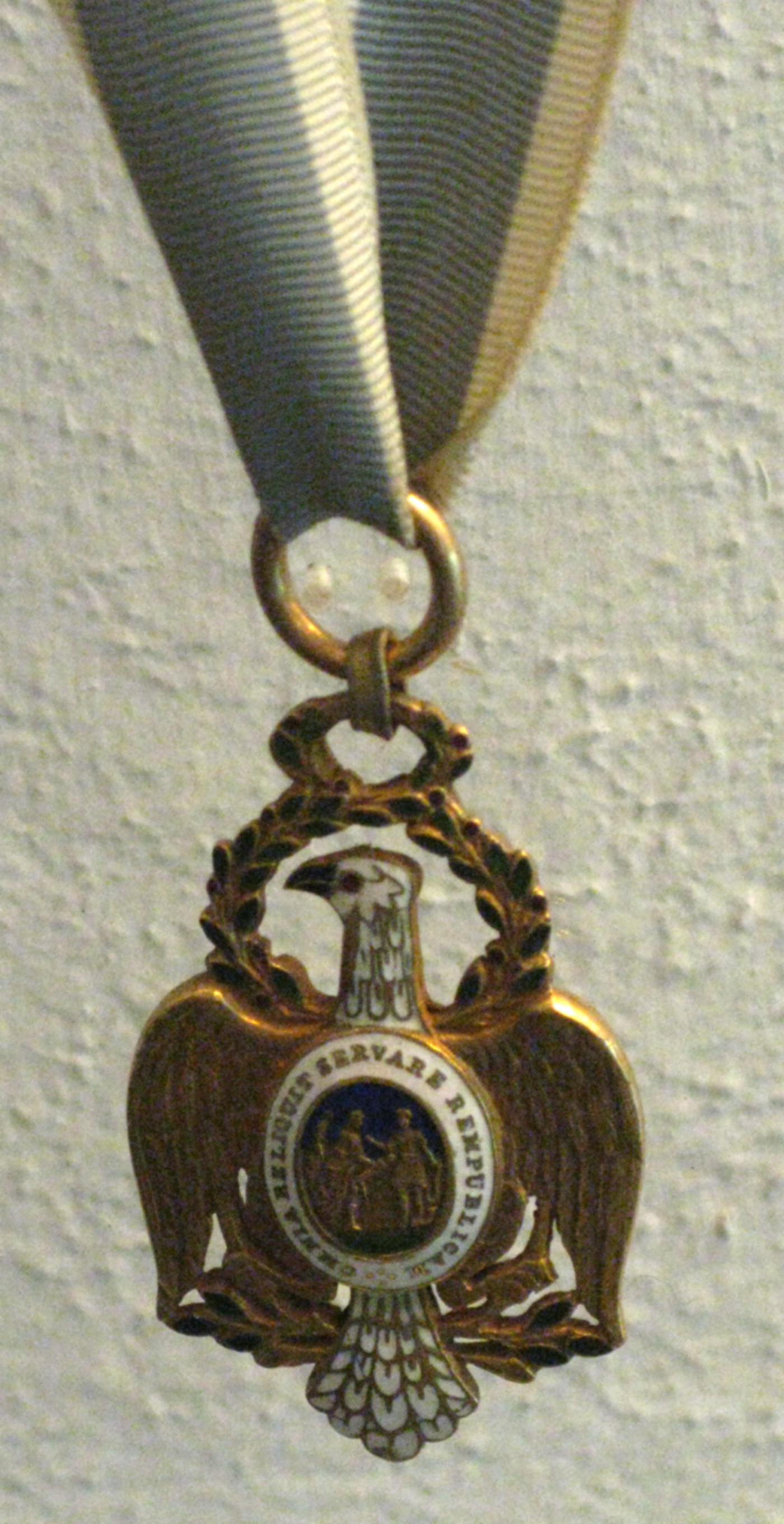 Society of the Cincinnati Eagle commissioned by the New York branch in 1919